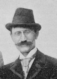 Karel Štapfer (1863-1930), Czech painter, illustrator and scene decorator. The image is cropped from a group portrait of artists that cooperated with Luděk Marold on his panorama of Battle of Lipany. It is watermarked by printmaker Jan Vilím (1856-1923).